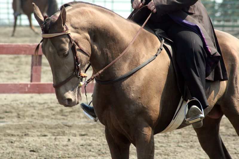 Many champagne horses exhibit this unusual sheen.